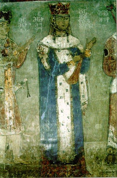 Queen Tamar of Georgia as depicted on a mural in Betania monastery